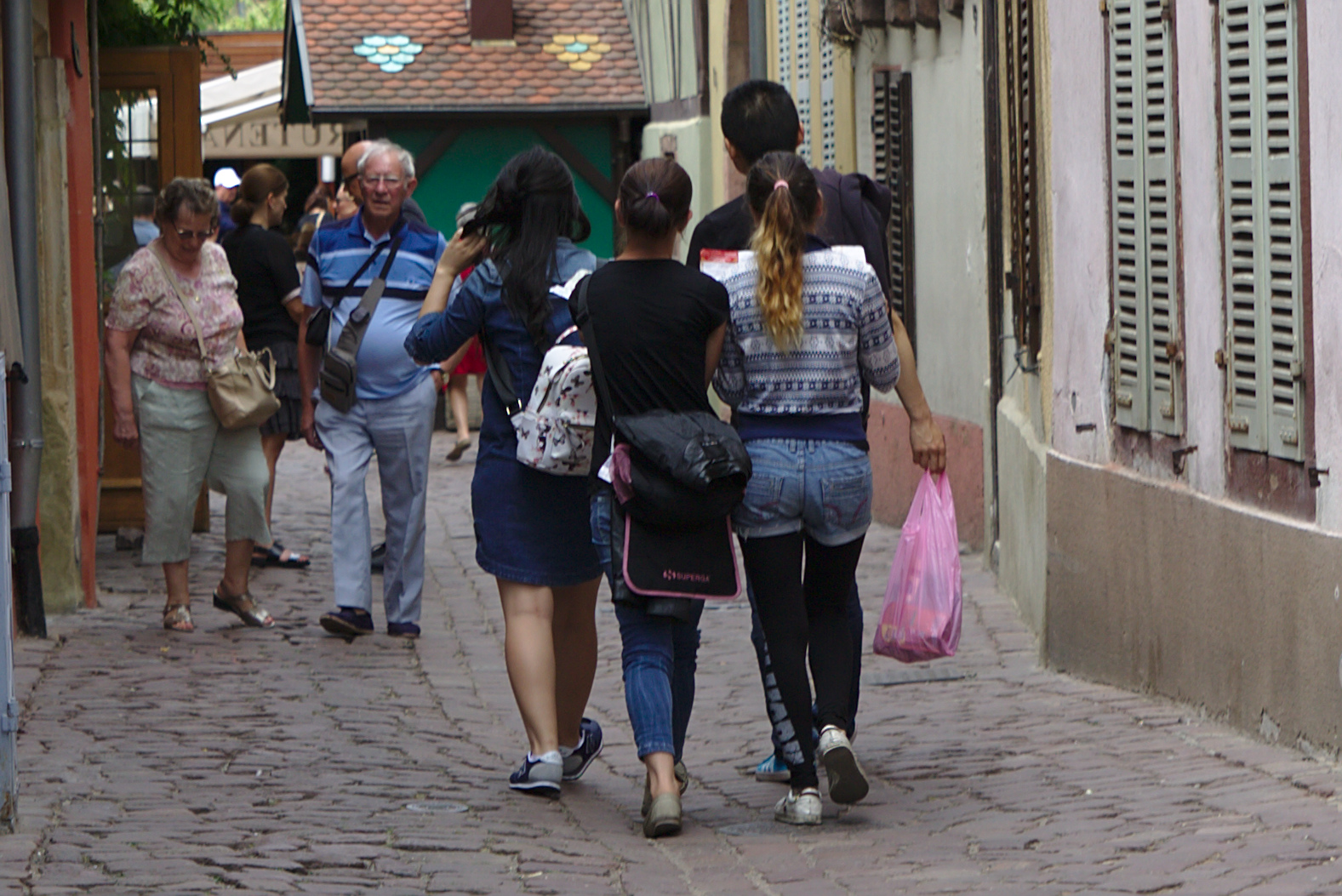 Two girls pickpocketing Japanese tourists in Colmar.